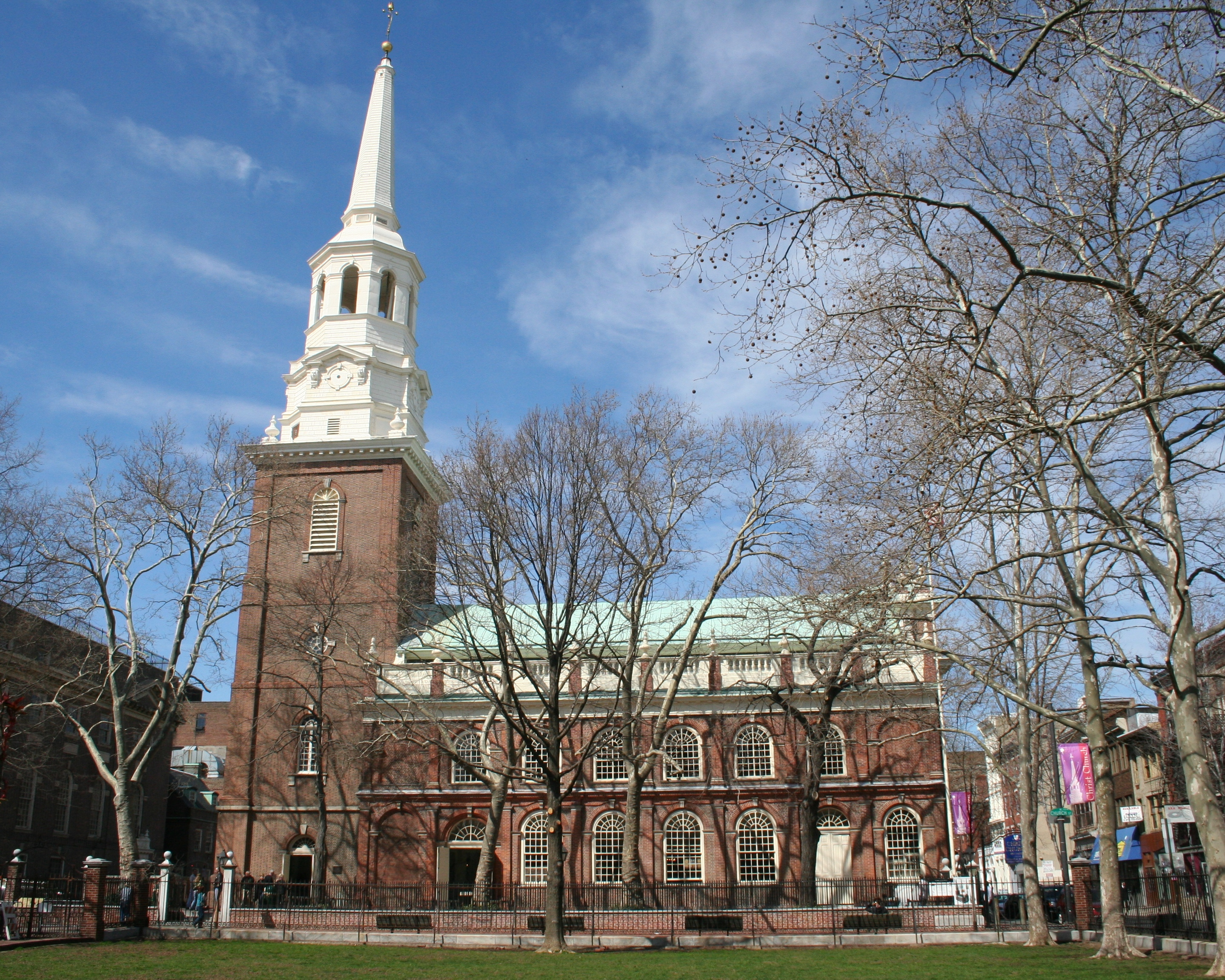 Christ Church, Philadelphia - view from Market St.